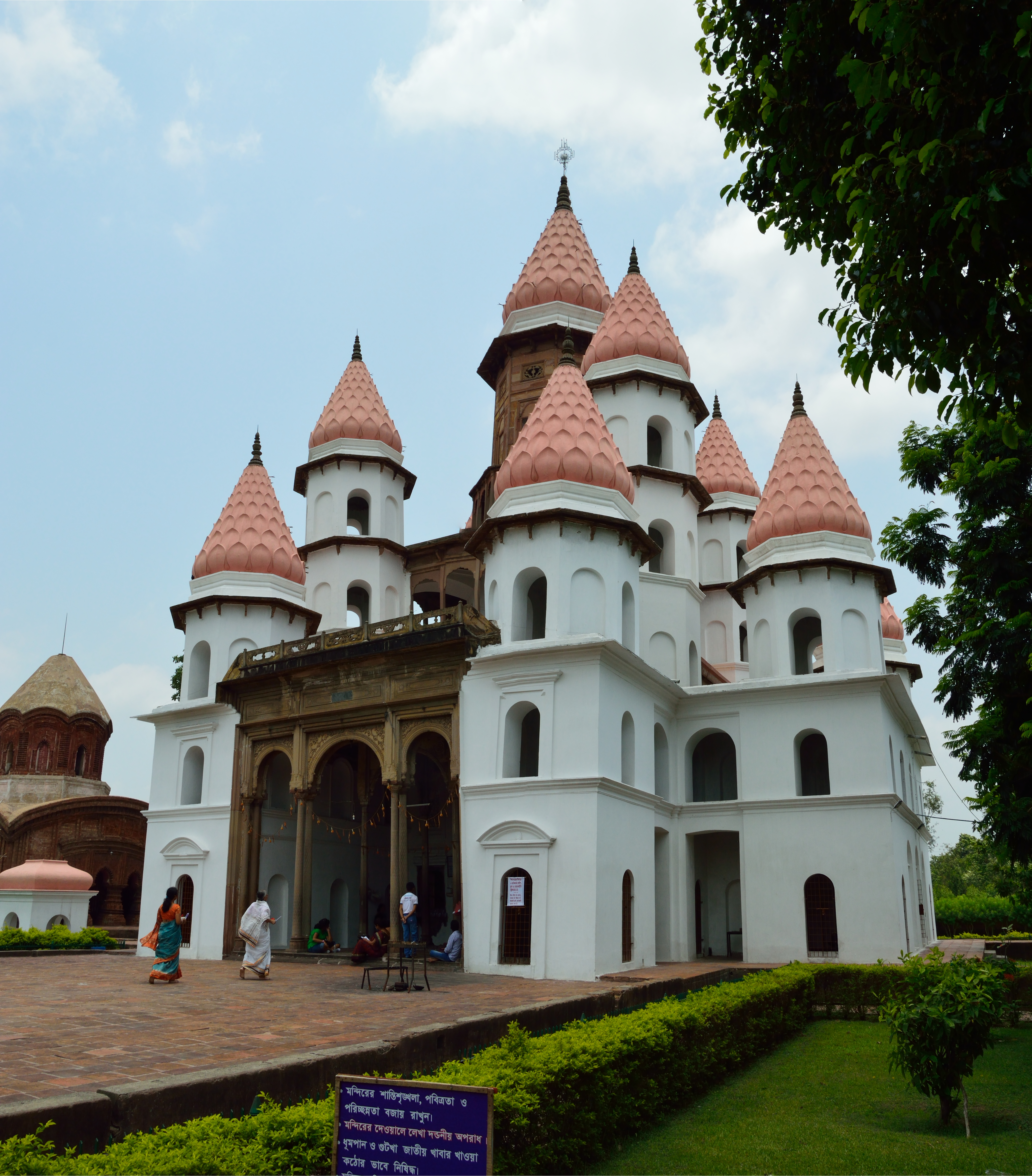 The Hanseswari temple at the Hanseswari and Vasudeva temples site at the Bansberia Royal Estate, Hooghly, West Bengal, India.